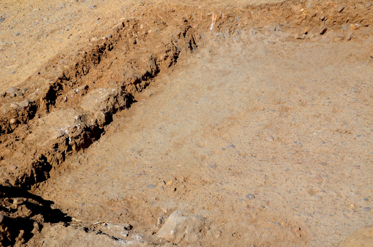 Archaeological excavations at the site of Dessobriga in Osorno la Mayor (province of Palencia, Castile and León). Steps to the monumental building.